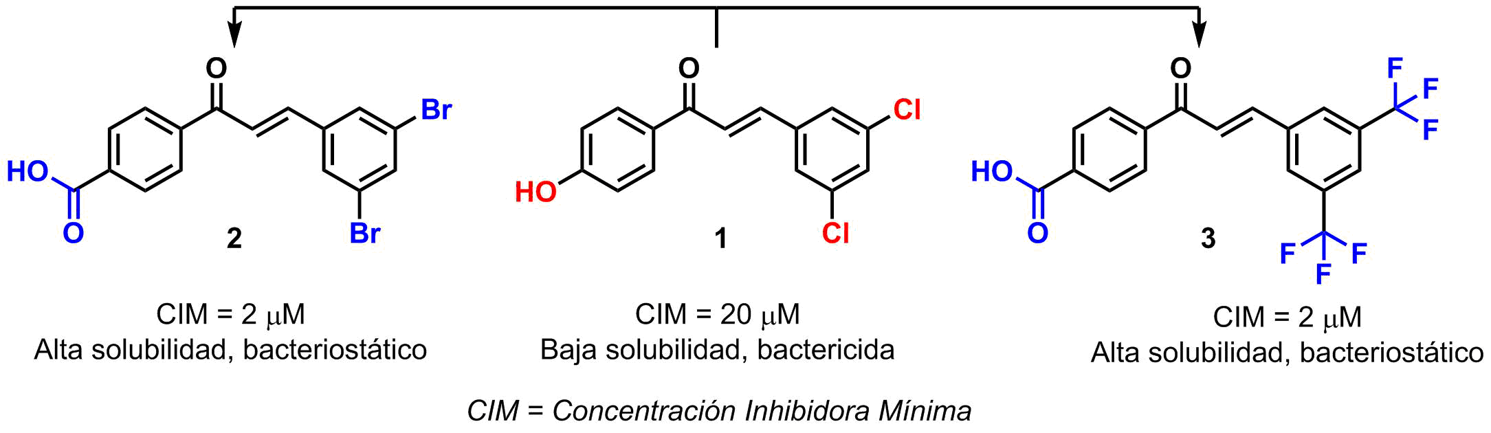 Chalcones bioisosterism.